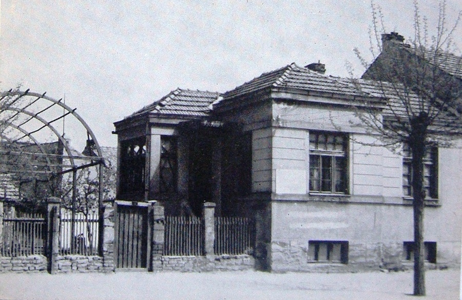 The building in Skopje in which were made decision for an armed uprising in Macedonia in 1941. This media file is produced by Wikipedian in Residence in Category:Wikipedian in Residence at DARM in 2016.